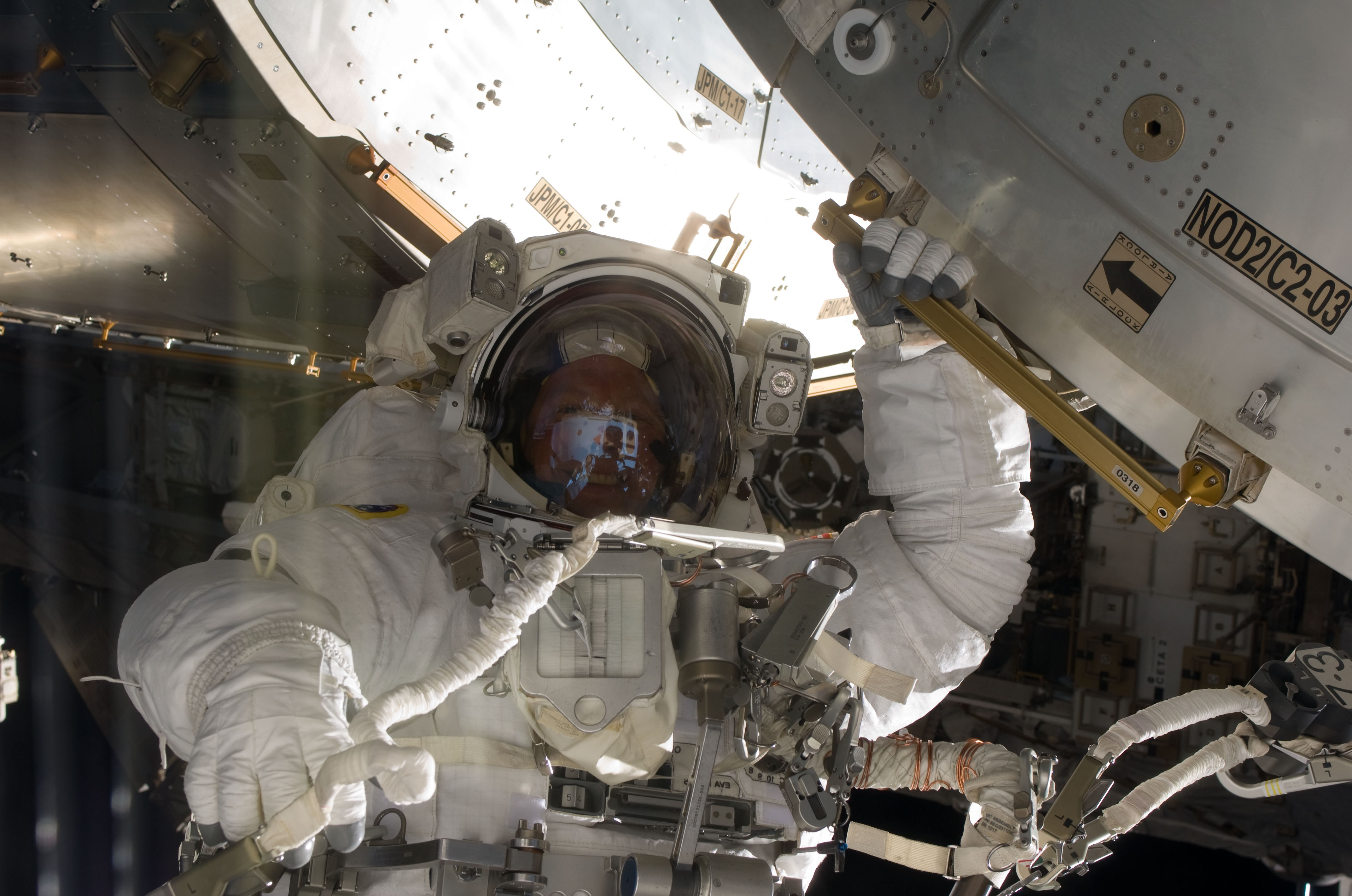 Astronaut Tim Kopra, mission specialist, is pictured during the first of five planned spacewalks to be performed on the International Space Station by the STS-127 crew. When the Endeavour crew returns to Earth, Kopra will stay onboard the station to serve as flight engineer for ISS expedition duty.